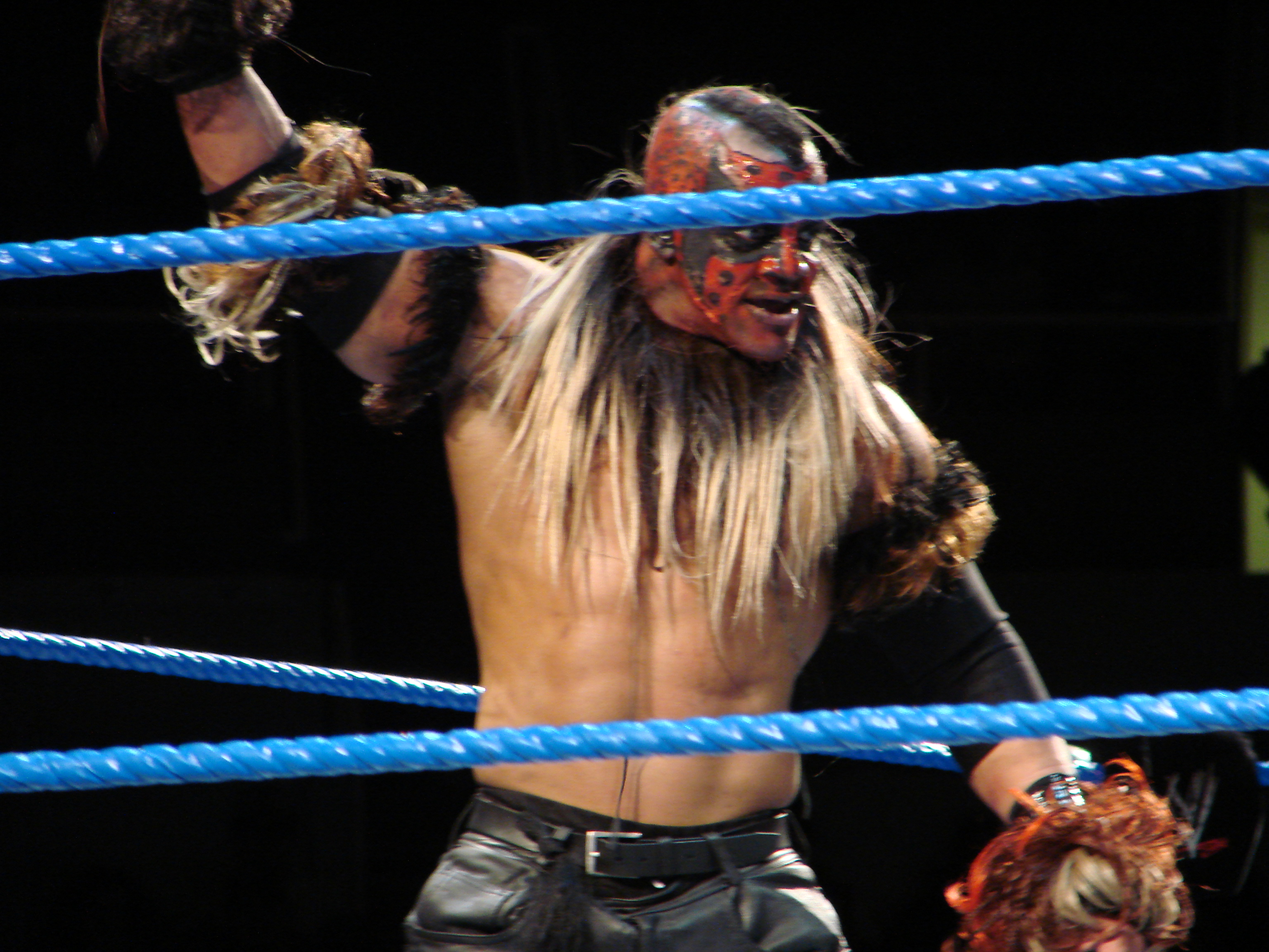 The Boogeyman at a Friday Night Smackdown live event in Champaign, IL on February 4, 2007